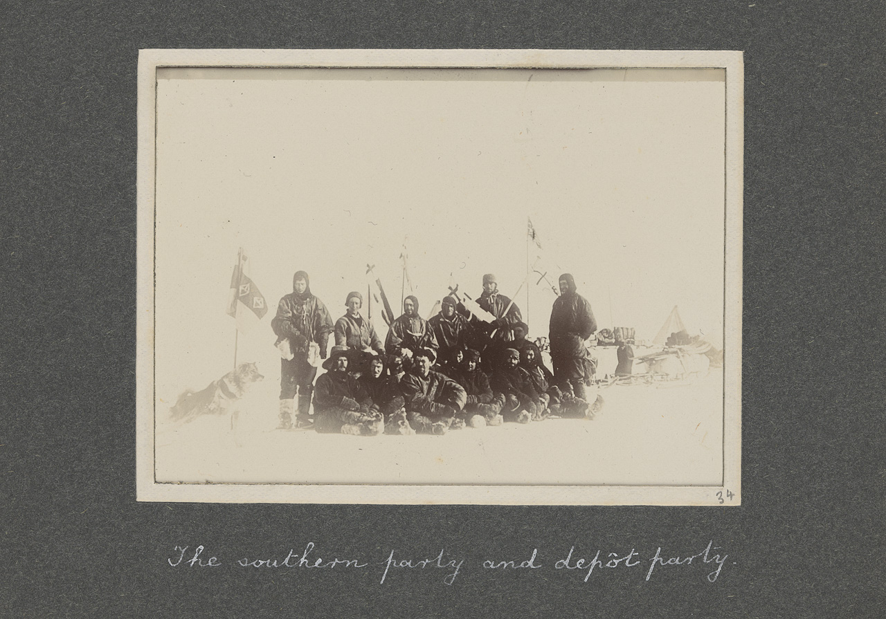 National Antarctic Expedition, 1901-1903 A cloth covered album containing 48 photographic prints relating to the National Antarctic Expedition between 1901 and 1903 when E. H. Shackleton was sent home. The album is inscribed by Shackleton "With kindest wishes from E. H. Shackleton to the Missis Dawson Lambton in Remembrance of the great share they took in helping the Expedition, June 1905." According to a caption in the album the Dawson Lambton's subscribed to the balloon that was taken and used. A few photographs illustrate the balloon and the view from it. There is some element of doubt about the accuracy of some of the captions and images. They may have been compiled in such a way as to provide a narrative, rather than an accurate record as depicted by each image. ALB0346; The southern party and depot party, plate 34